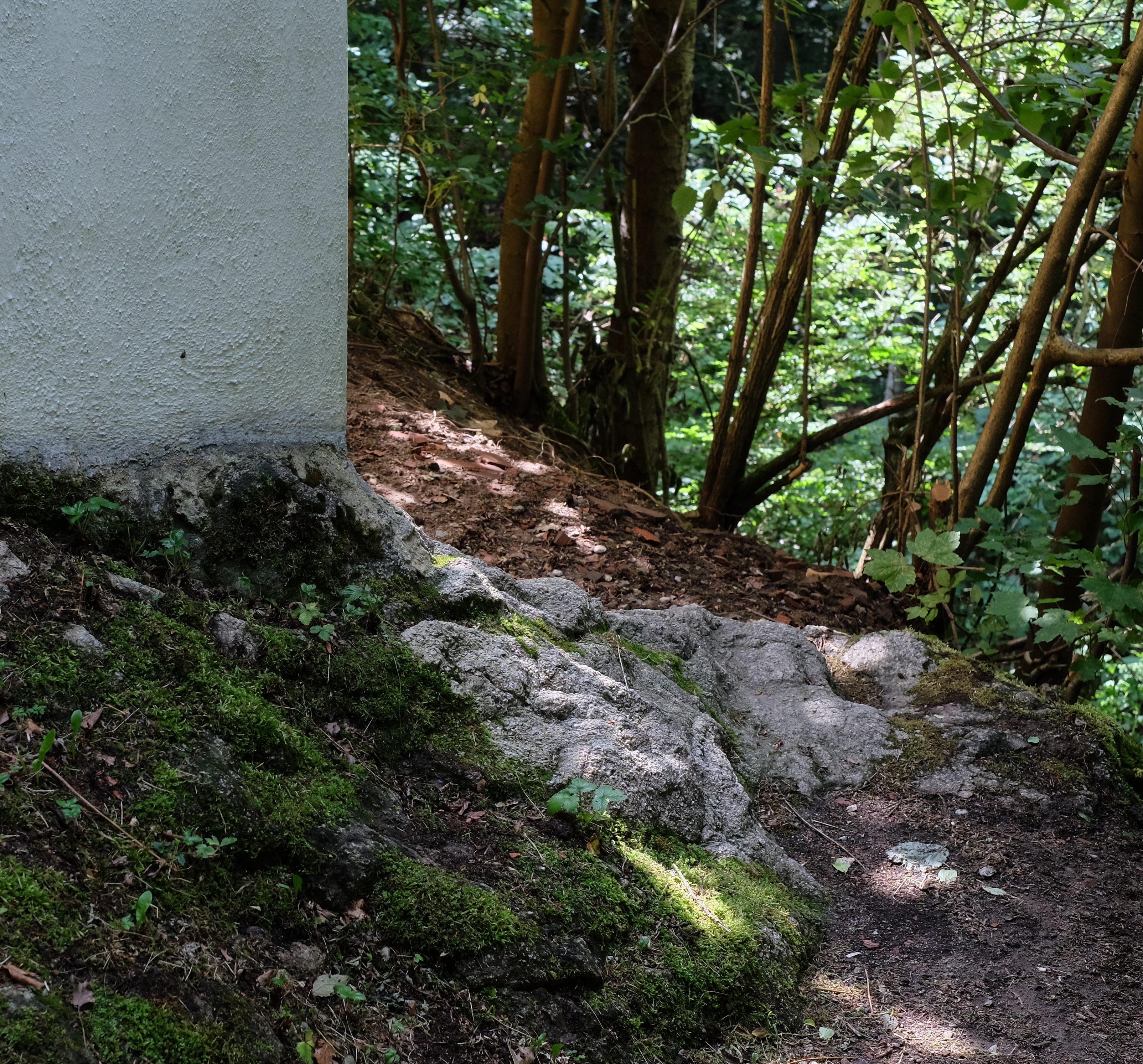 Pilgrimage church St John the Baptist, Freudenberg, district Amberg-Sulzbach, Bavaria, Germany